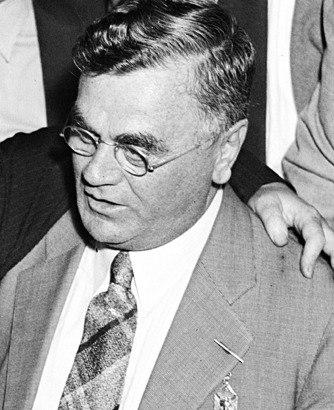 Harry L. Haines, US Representative from Pennsylvania, while singing Barbershop Songs with other Congressmen